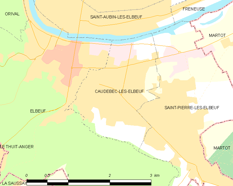 Map of French municipality Caudebec-lès-Elbeuf